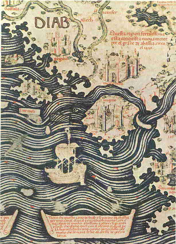 Fra Mauro's map of East Africa